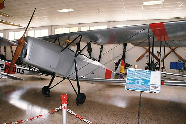 Hispano-Suiza HS-34 of FARE. 4/10.